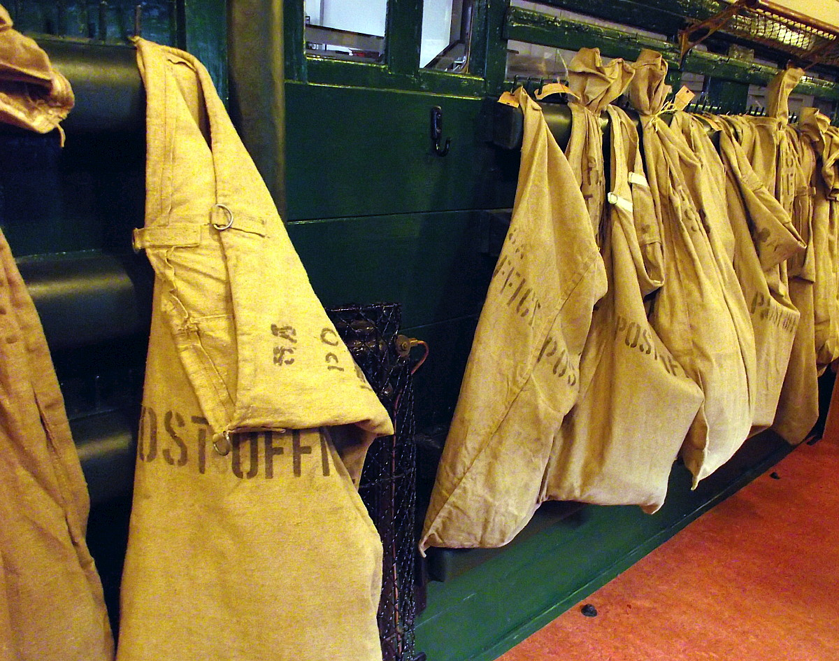 Post Office traveling sorting office, Bressingham Steam Museum, Norfold